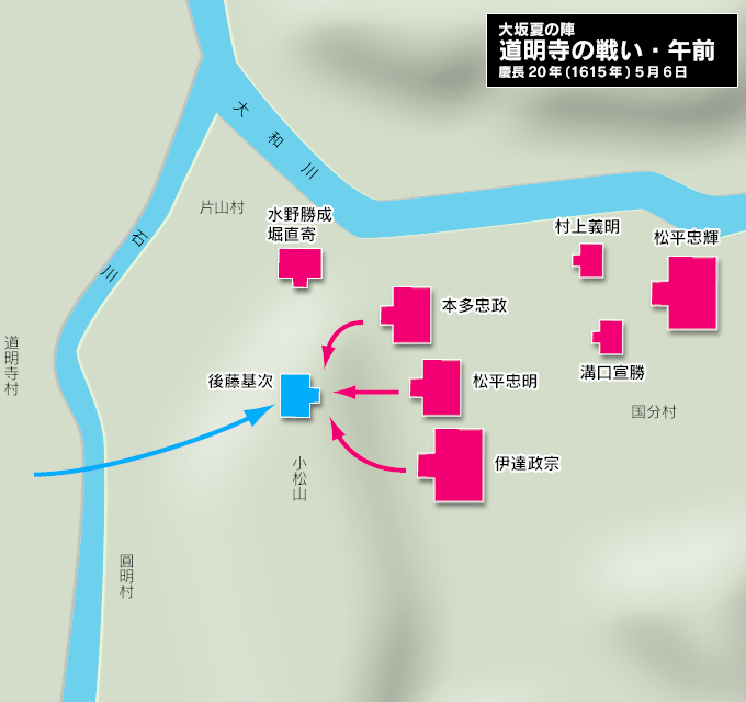 Image of 道明寺の戦い(1 of 2) the part of 大坂の役